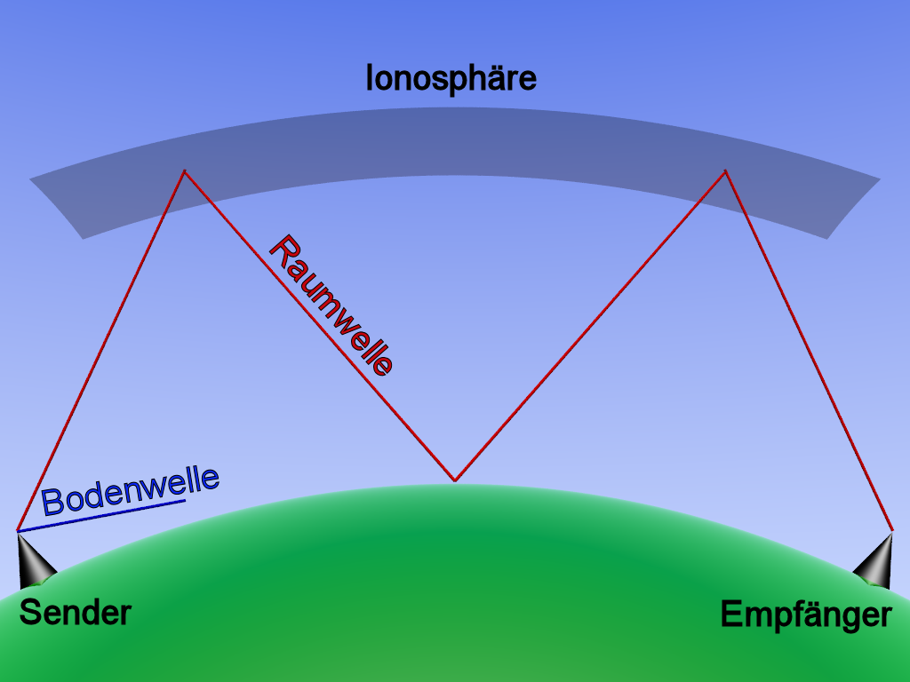 Schematic of wave propagation by ground and sky wave (with german labelling)